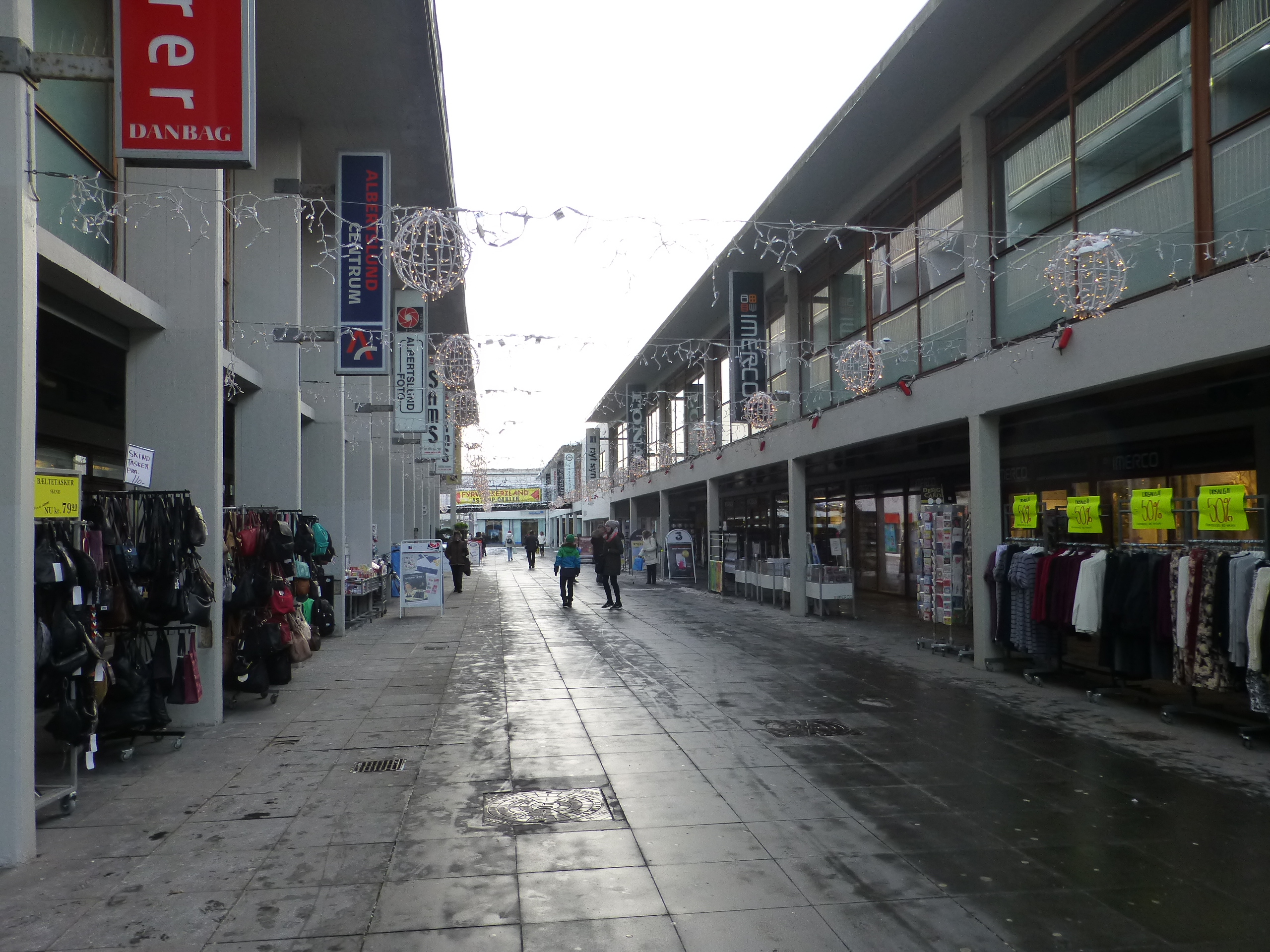 The square Stationstorvet at Albertslund Station in Copenhagen.